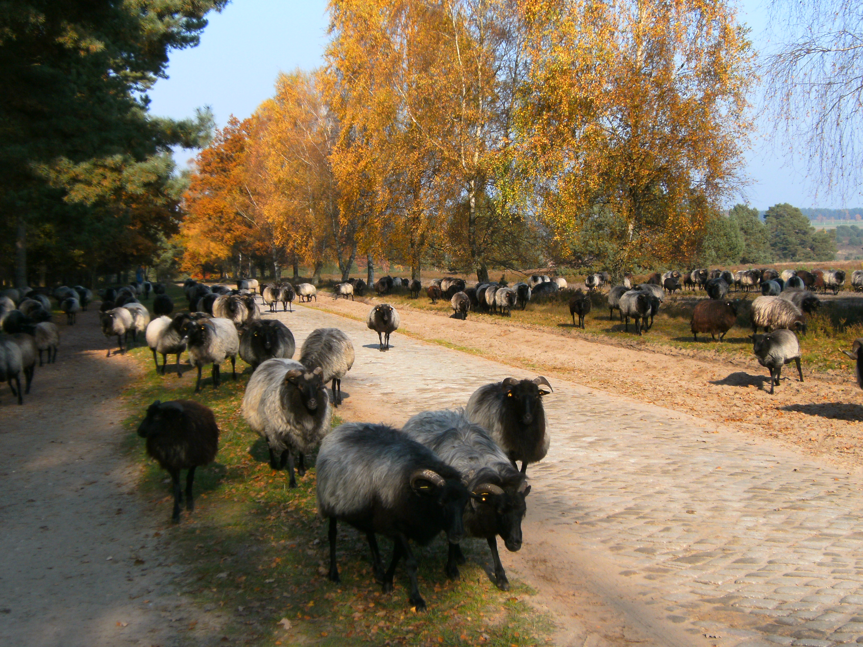 Flock of moorland sheep in Lüneburg Heath between Undeloh and Wilsede, Germany. Crossing the road.